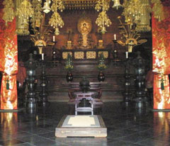 Shakyamuni in the main hall, Sōji-ji temple, Tsurumi-ku, Yokohama, Japan